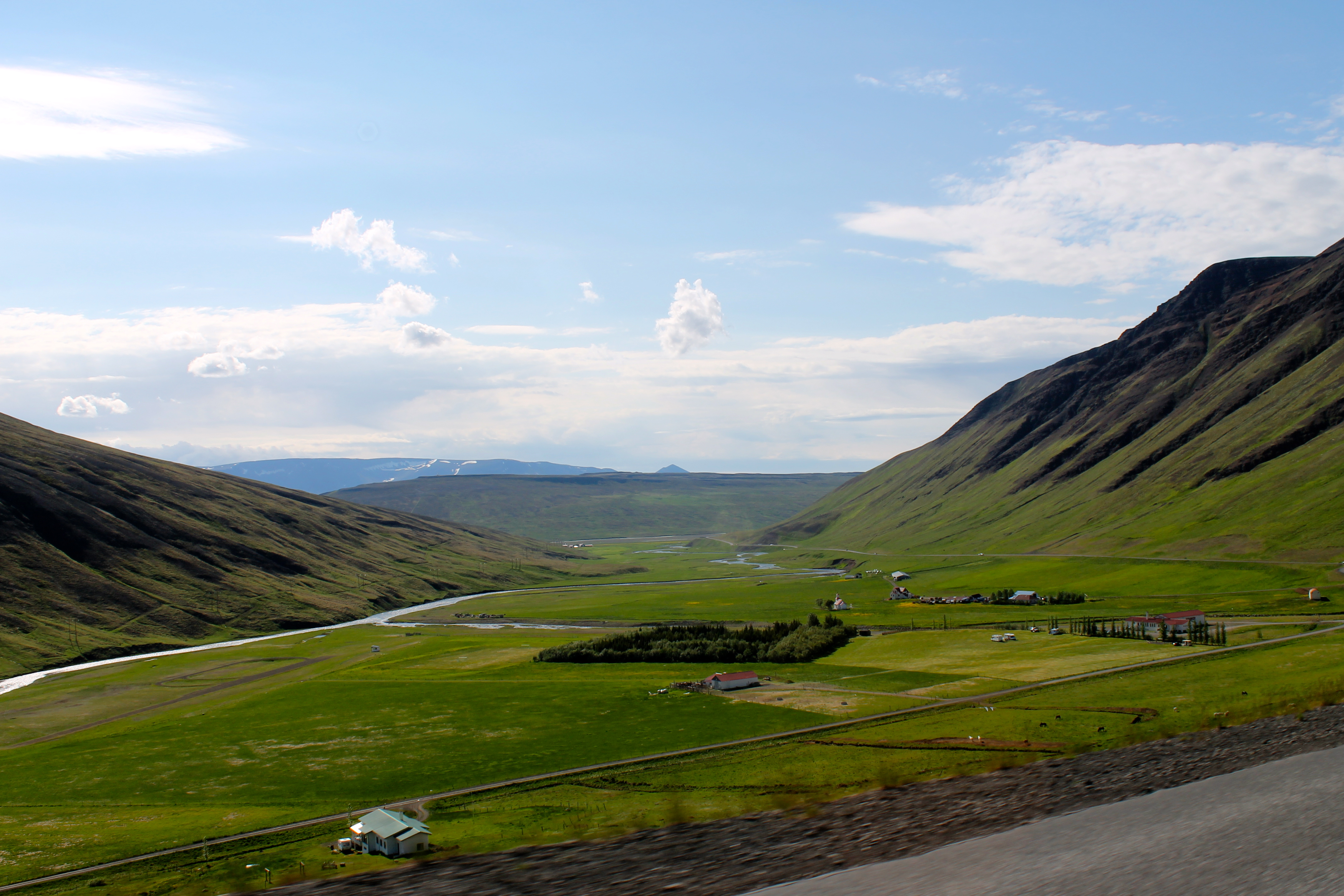 Bólstaðarhlíð farm and church, Húnavatnssýsla, Northern Iceland.